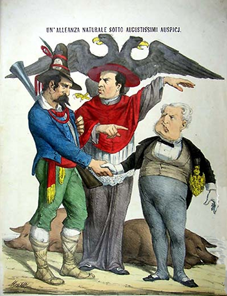 Satire of alliance between cardinal brigants and old regime